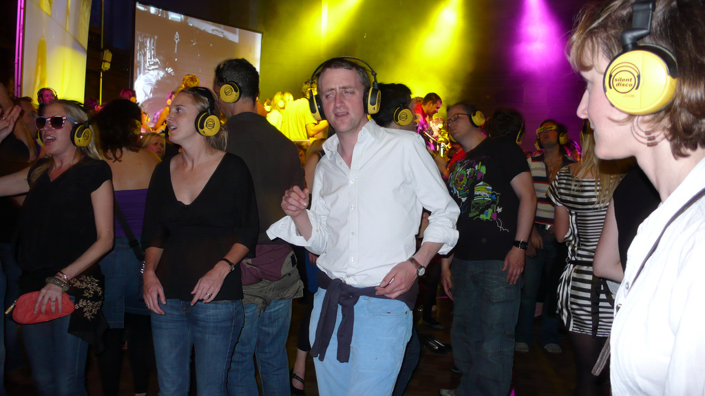 Silent Disco in Underbelly's McEwan Hall in Bristo Square at Edinburgh Festival Fringe in 2009